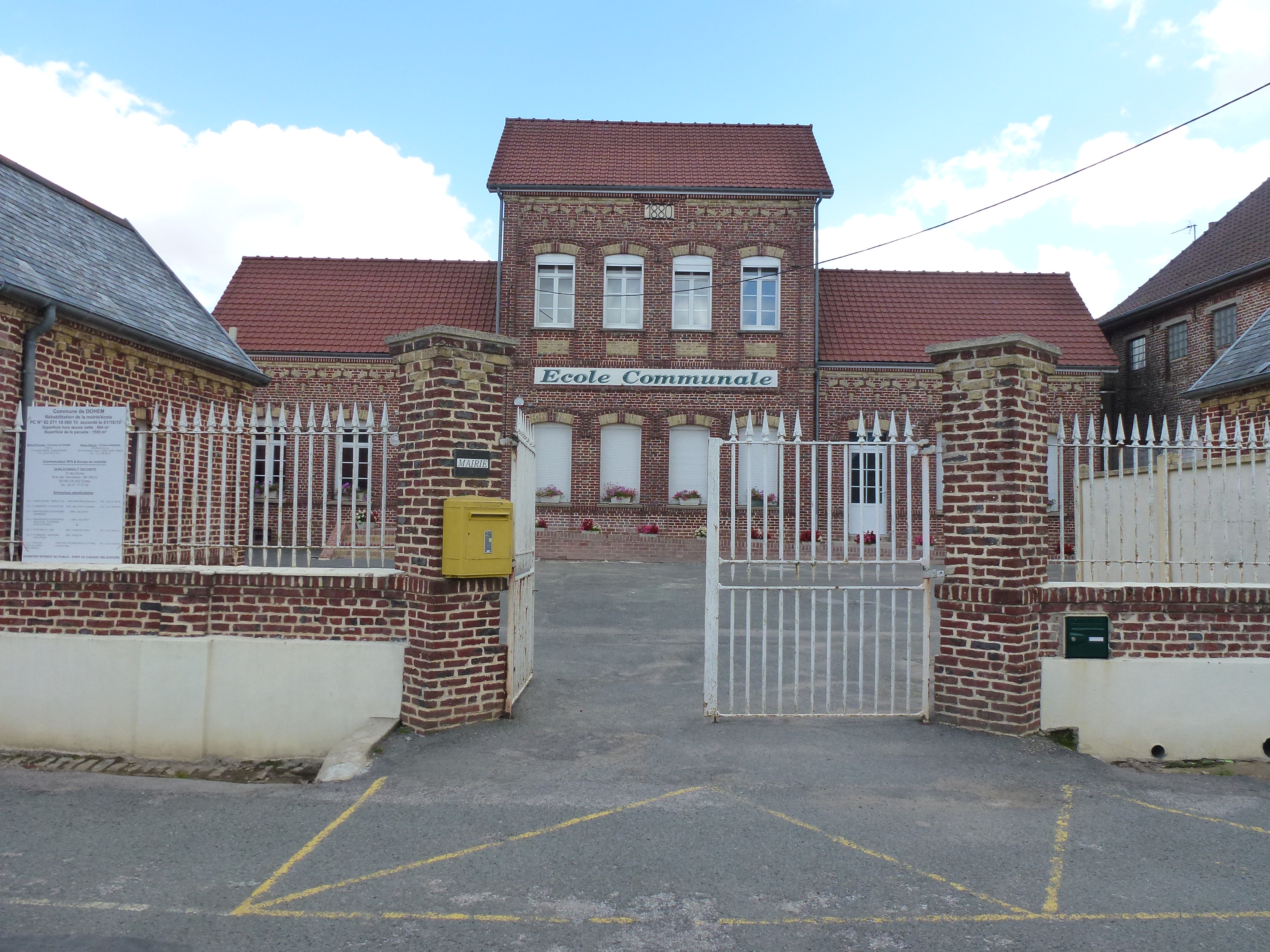 Dohem (Pas-de-Calais, Fr) mairie, école communale